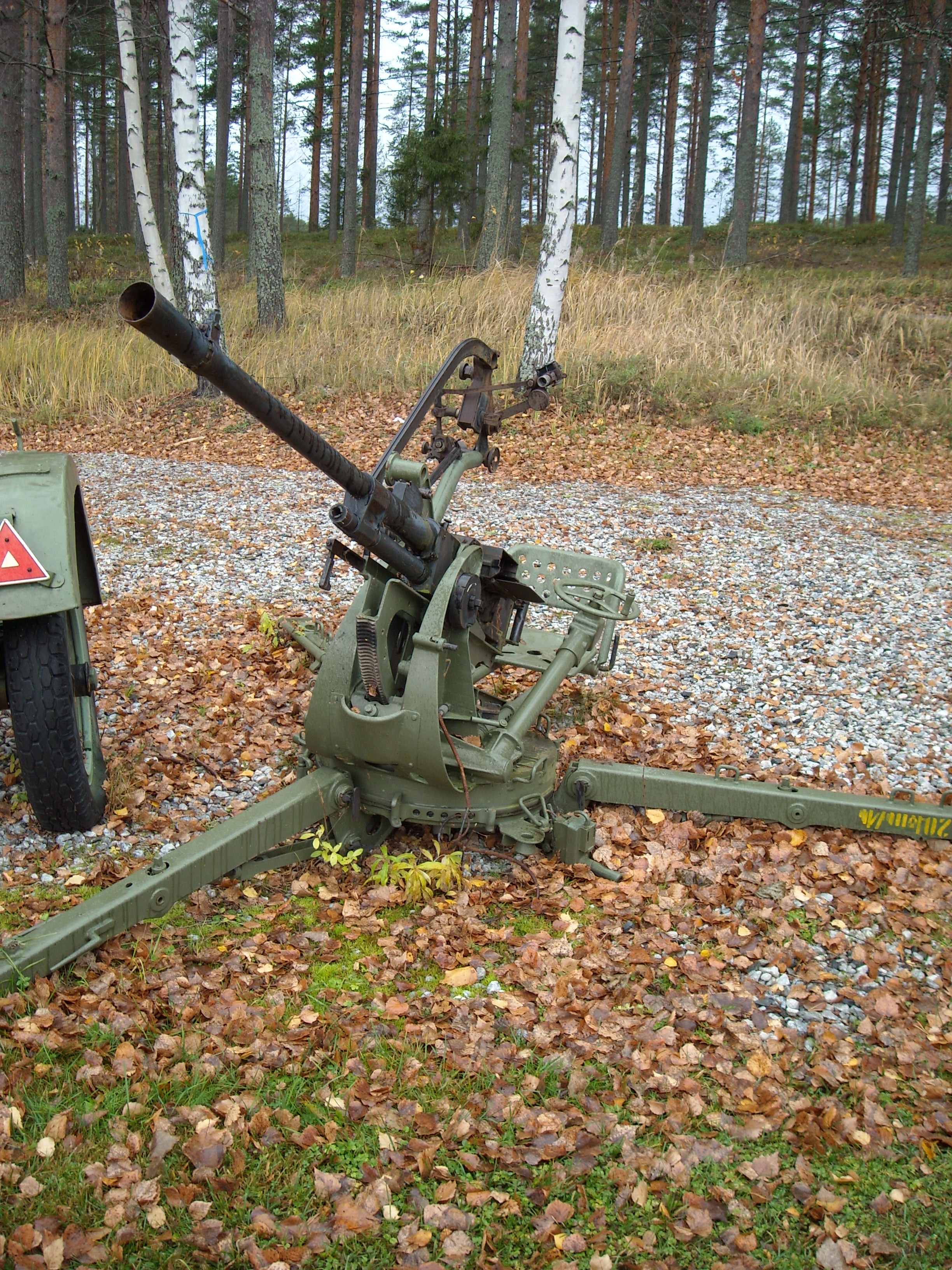 Italian made 20 mm anti-aircraft cannon late 30'. Construction company Breda. Used by (for instance) Defence Forces of Finland at WW II.